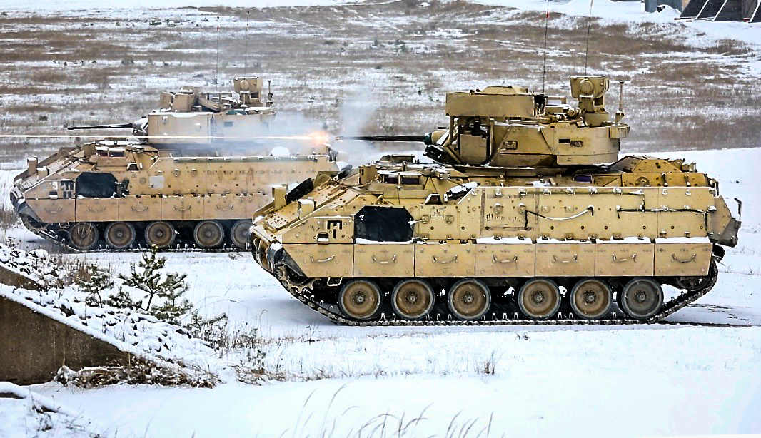 Soldiers in a Bradley fighting vehicle fire rounds during a live-fire exercise at Camp Aachen in Grafenwoehr, Germany, Jan. 12, 2019.